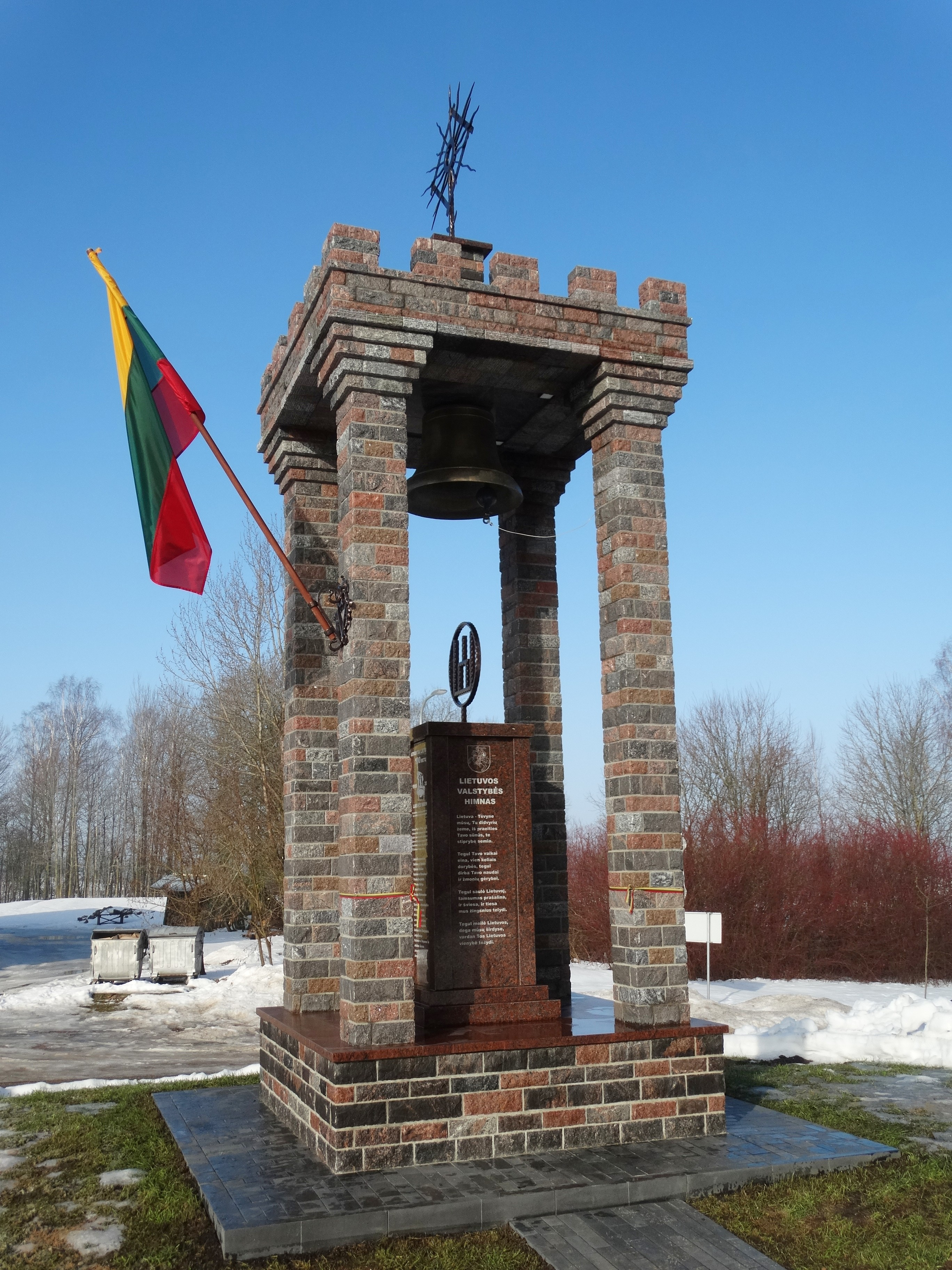 Monument Freedom Bell, Bijotai, Šilalė district, Lithuania